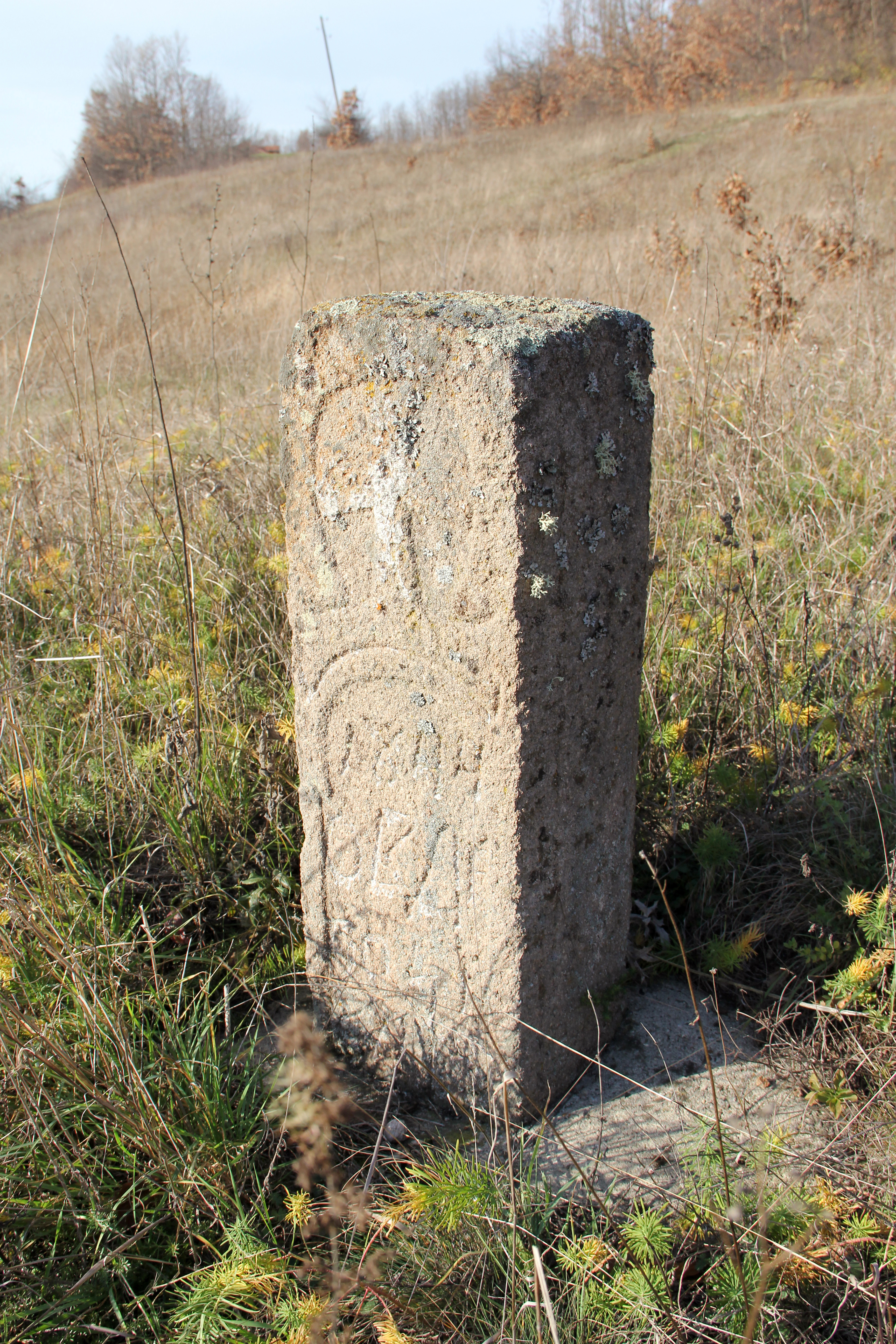 A tombstone from 1844 at the location of Dodusa near the old village graveyard in the village of Brusnica (the municipality of Gornji Milanovac), Serbia.